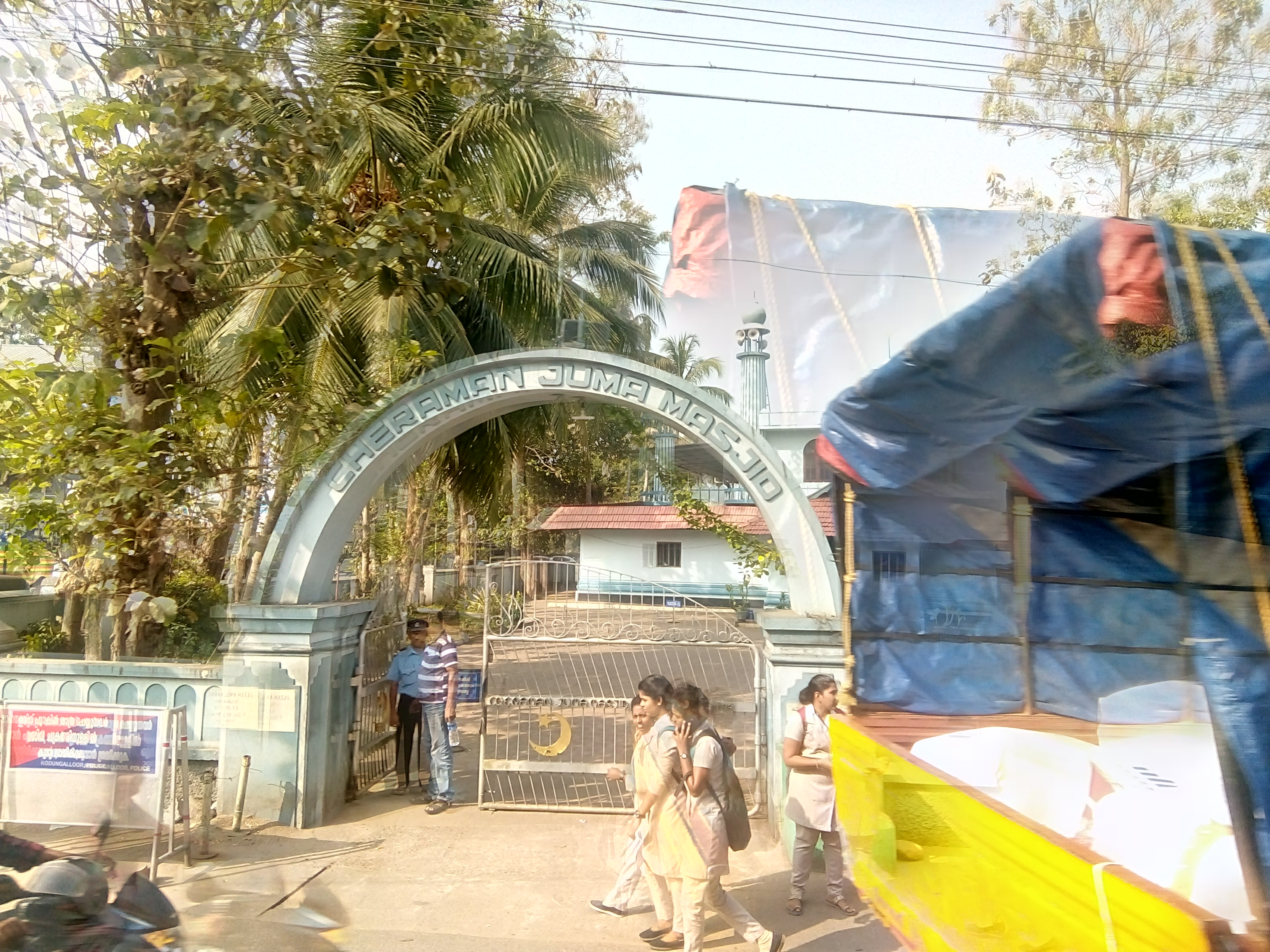 First mosque in India.